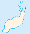 Map showing Roque del Este, Chinijo Archipielago, Canary Islands.